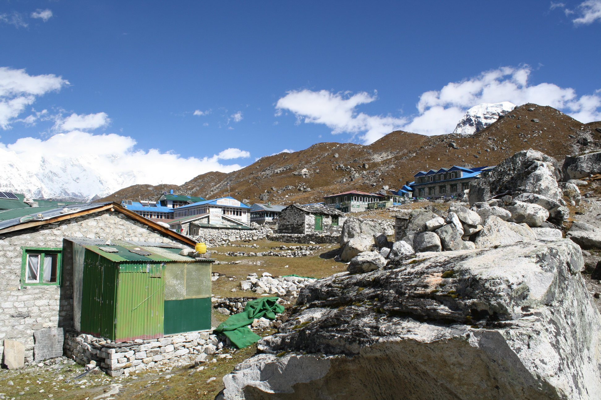 Gokyo village, Nepal